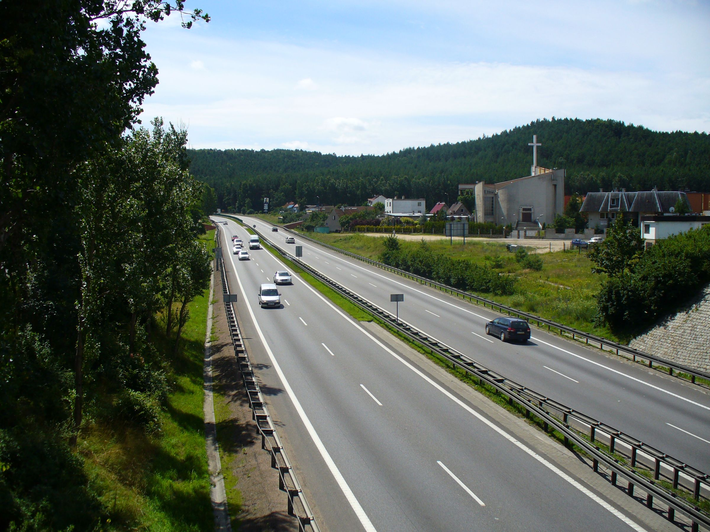 Gdynia